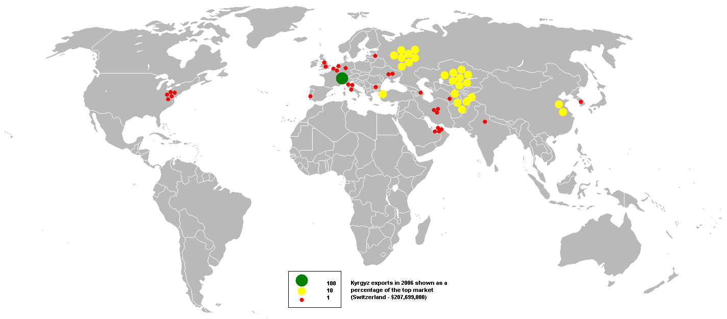 This bubble map shows the global distribution of Kyrgyz exports in 2006 as a percentage of the top market (Switzerland - $207,699,000). This map is consistent with incomplete set of data too as long as the top producer is known. It resolves the accessibility issues faced by colour-coded maps that may not be properly rendered in old computer screens. Data was extracted on 22nd September 2007 from Based on :Image:BlankMap-World.png